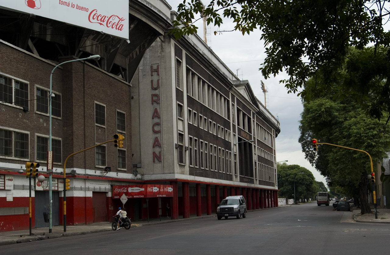 Entrance to "Platea Alcorta" of the Stadium Tomás Adolfo Ducó